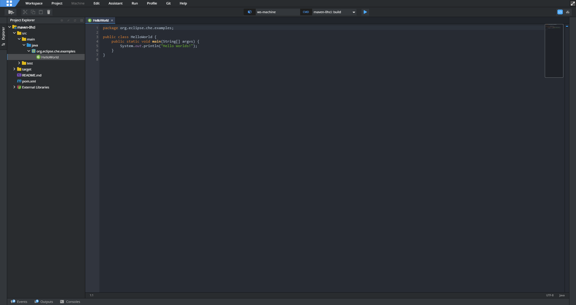 A screenshot of the Eclipse Che browser IDE